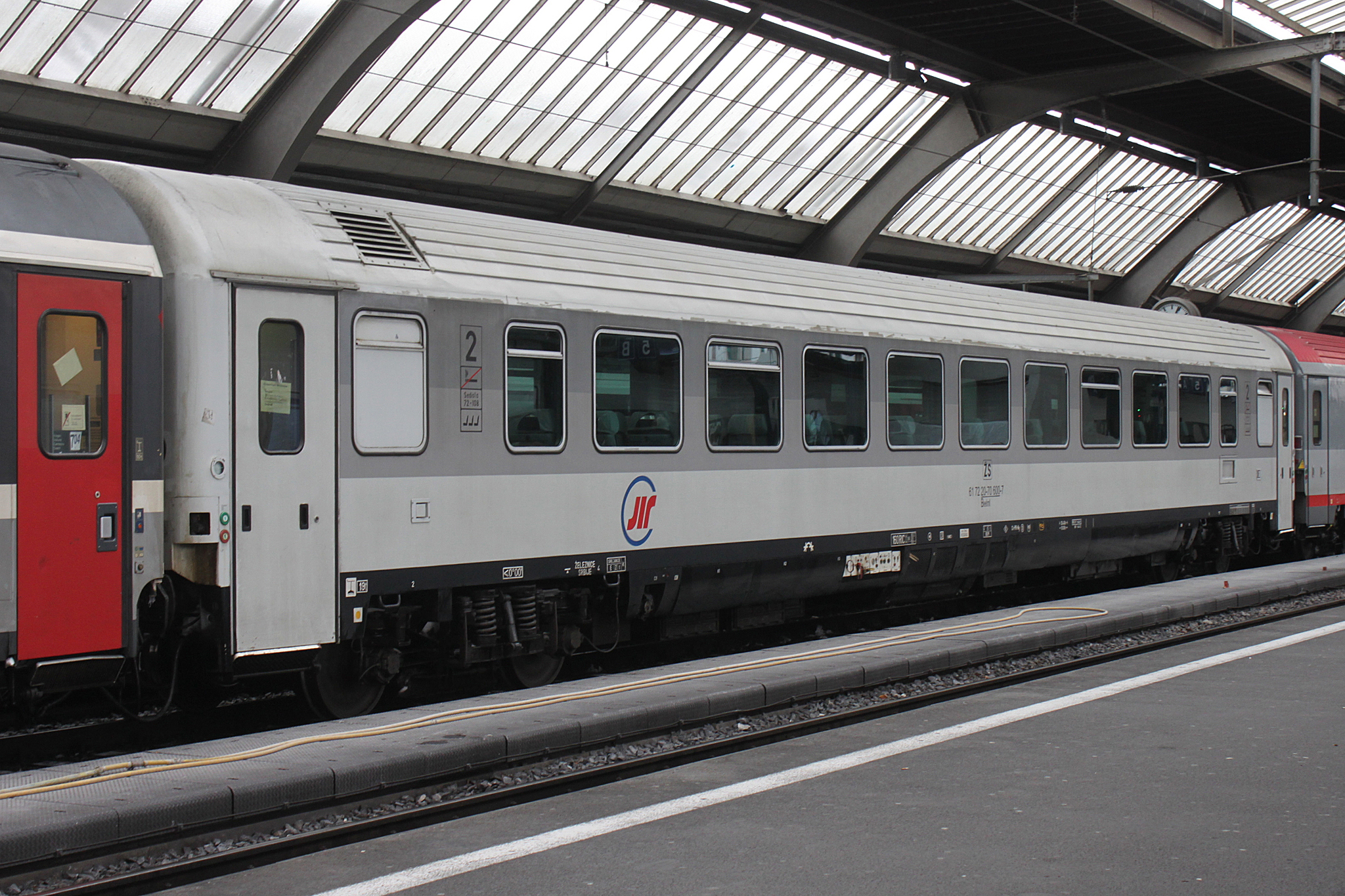 ŽS Beelmt 61 72 20-70 600-7 at Zürich HB (as through coach from Belgrade in the consist of EuroNight "Zürichsee").